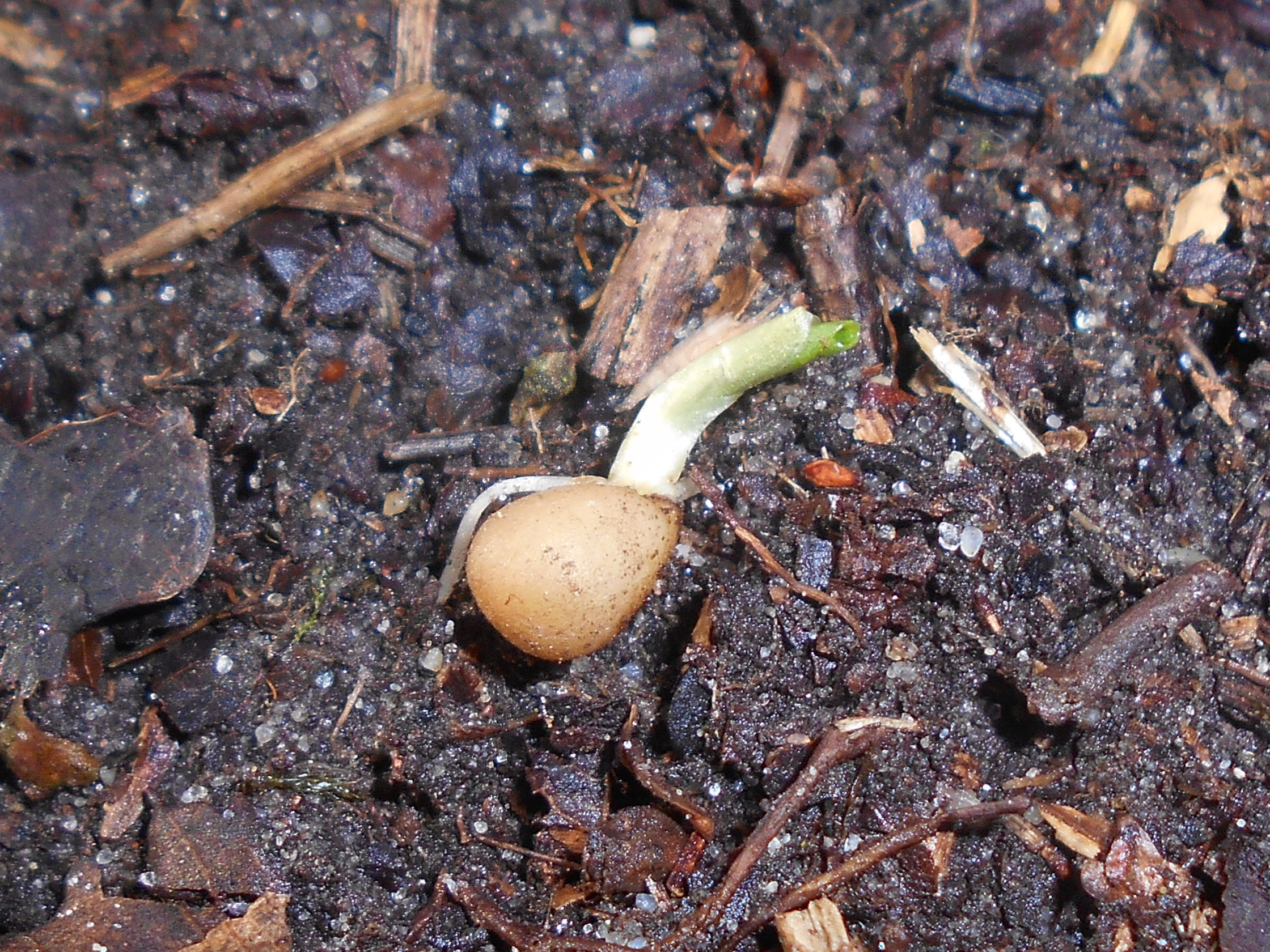 Ficaria verna. Syrenie Stawy, Szczecin, West Pomeranian Voivodeship, Poland.